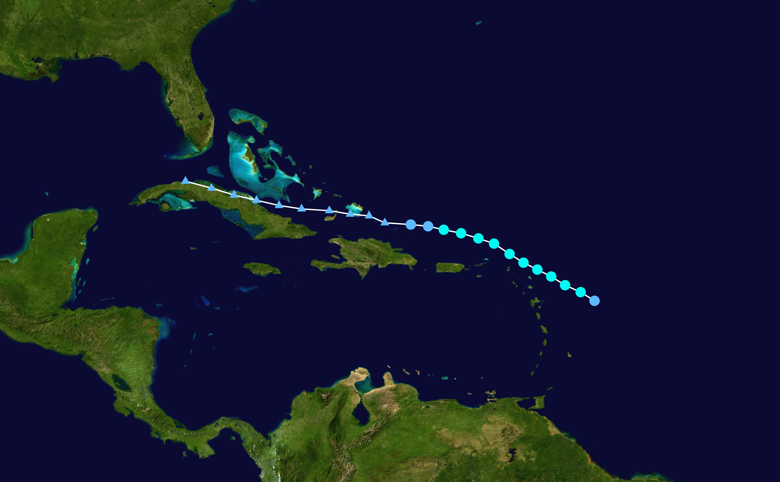 Track map of Tropical Storm Chris of the 2006 Atlantic hurricane season. The points show the location of the storm at 6-hour intervals. The colour represents the storm's maximum sustained wind speeds as classified in the Saffir–Simpson scale (see below), and the shape of the data points represent the nature of the storm, according to the legend below. Saffir–Simpson scale Tropical depression≤38 mph≤62 km/h Category 3111–129 mph178–208 km/h Tropical storm39–73 mph63–118 km/h Category 4130–156 mph209–251 km/h Category 174–95 mph119–153 km/h Category 5≥157 mph≥252 km/h Category 296–110 mph154–177 km/h Unknown Storm type Tropical cyclone Subtropical cyclone Extratropical cyclone / Remnant low / Tropical disturbance / Monsoon depression